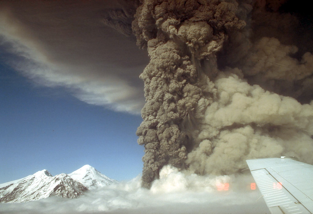 Aerial view, looking north, of the eruption column from the Crater Peak vent, Mount Spurr volcano. A light-tan cloud ascending from pyroclastic flows is visible at right. The 3,374-m (11,070 ft)-high summit lava dome complex of Mount Spurr is visible at left.